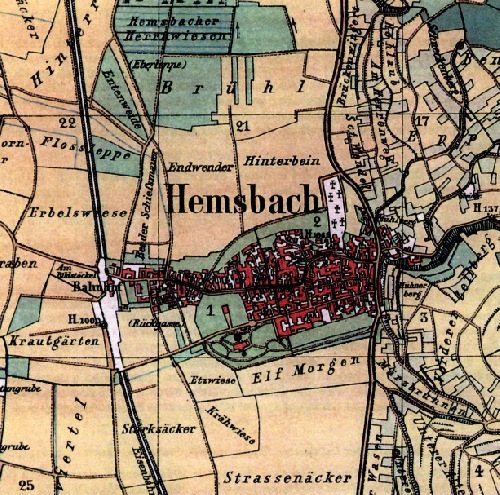 Map of Hemsbach 1890